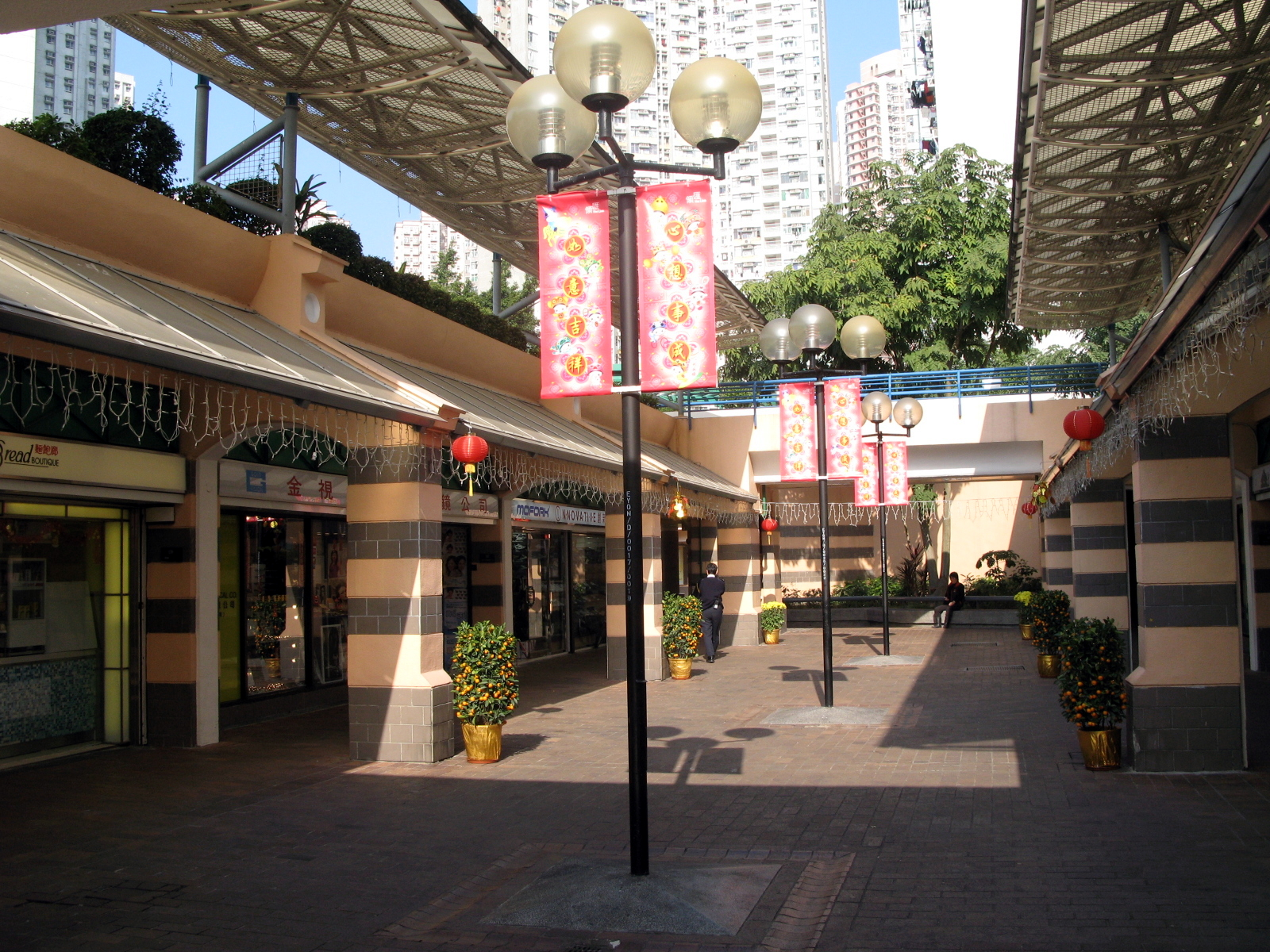 Yiu On Shopping Centre, Ma On Shan